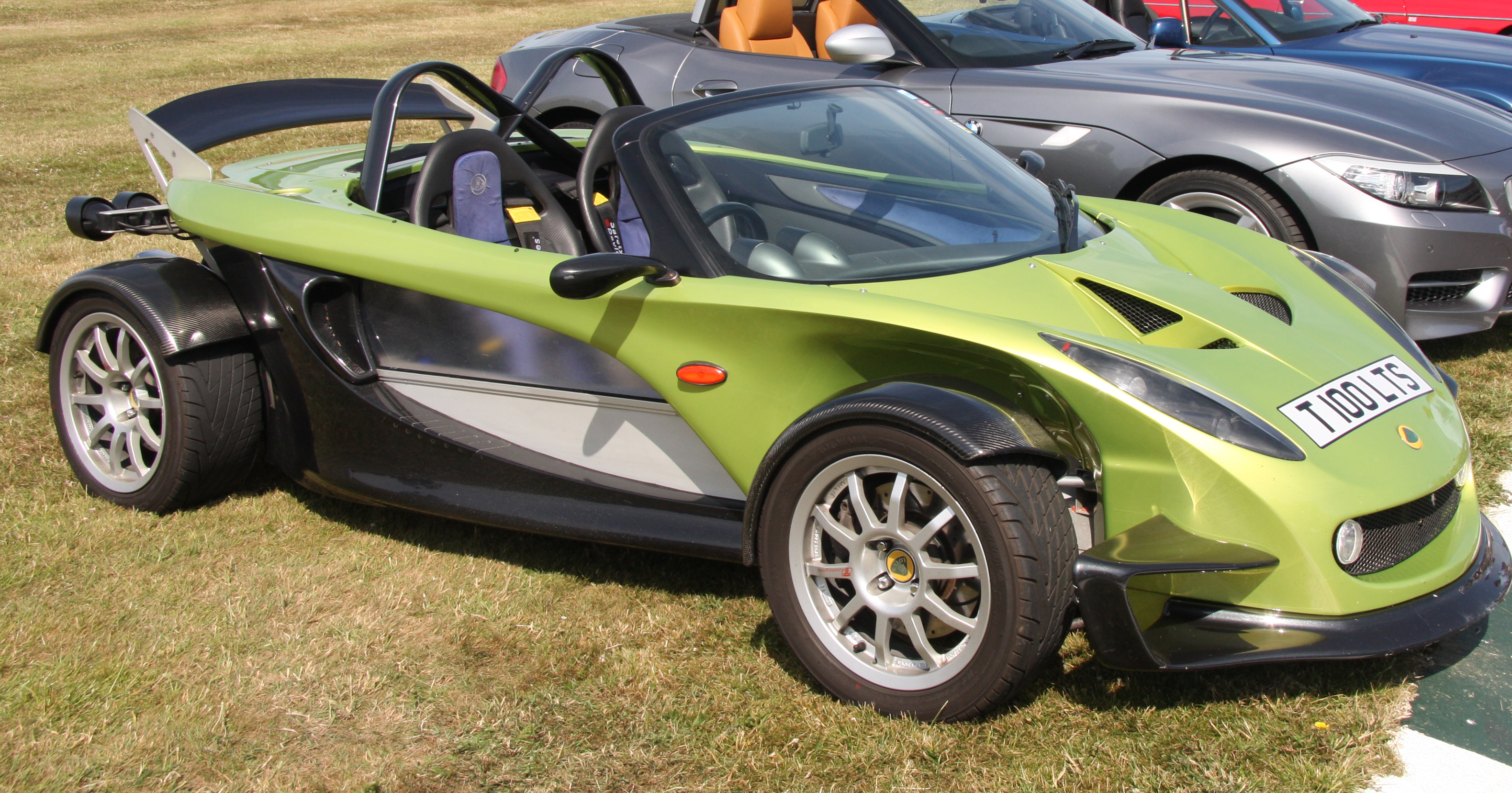 By far, the most cars I have ever seen at a Goodwood Breakfast Club. This is only some of them stretching around the circuit.